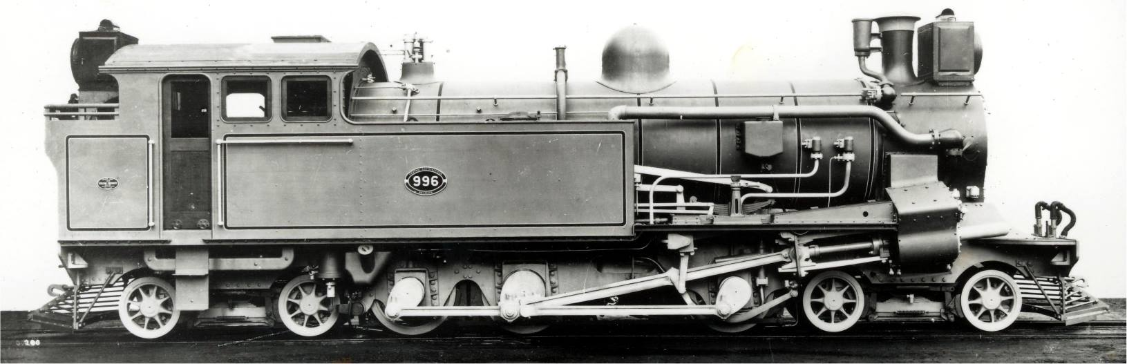 Central South African Railways 4-6-4T rack locomotive no. 996